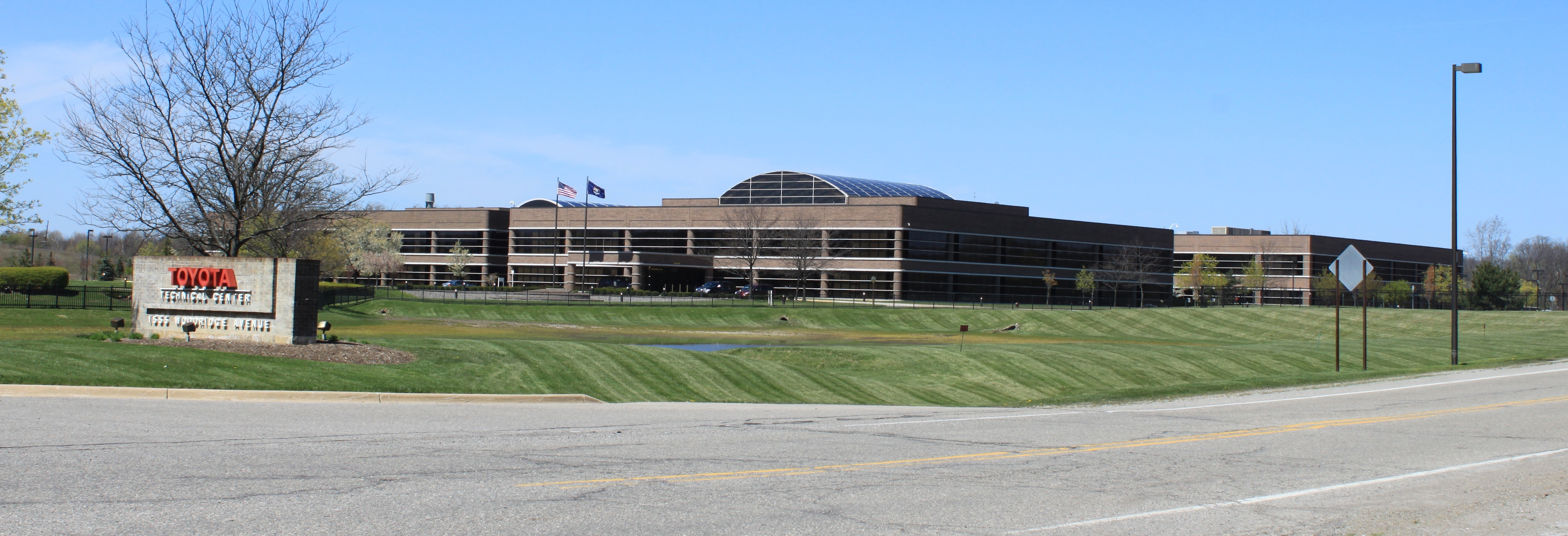 Toyota Technical Center, 1555 Woodridge Ave., Ann Arbor Twp., Michigan